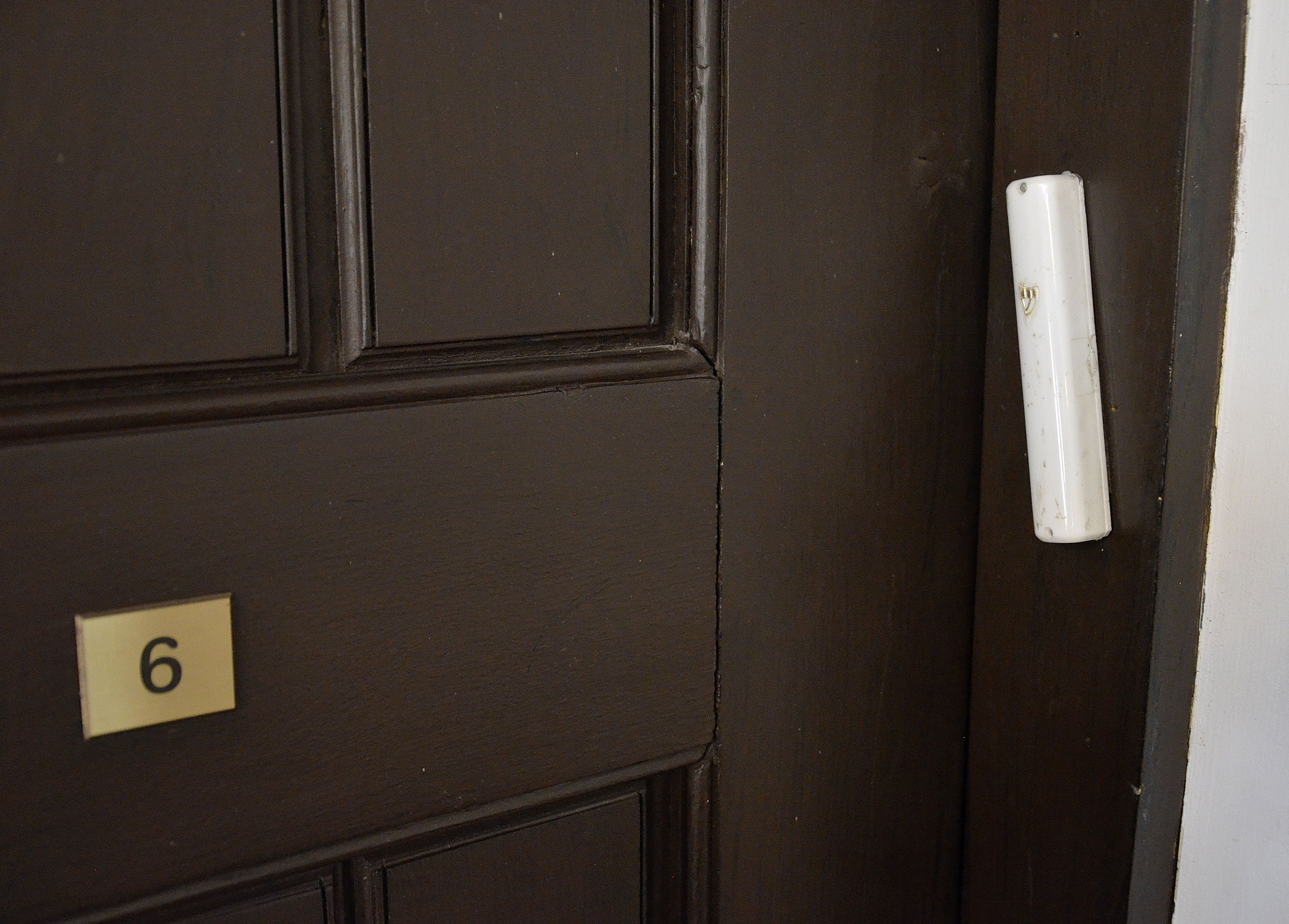 A mezuza in one of the rooms at Nożyk Synagogue in Warsaw